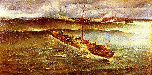 Jesus and inside! was the prayer that the fishermen of Santander (Cantabria) said at the same moment to pass "El Puntal" with storm to arrive at the port.